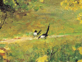 Golden autumn (painting by Ilya Ostroukhov, 1886)